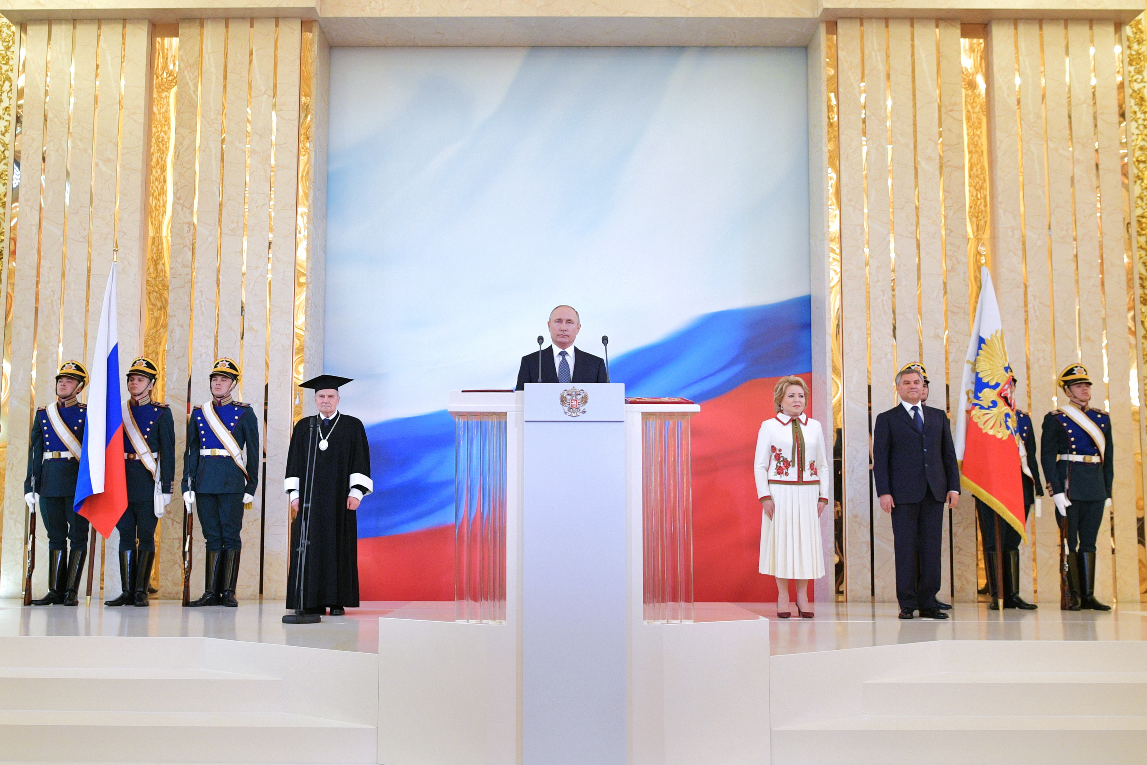 Vladimir Putin has been sworn in as President of Russia (2018-05-07)